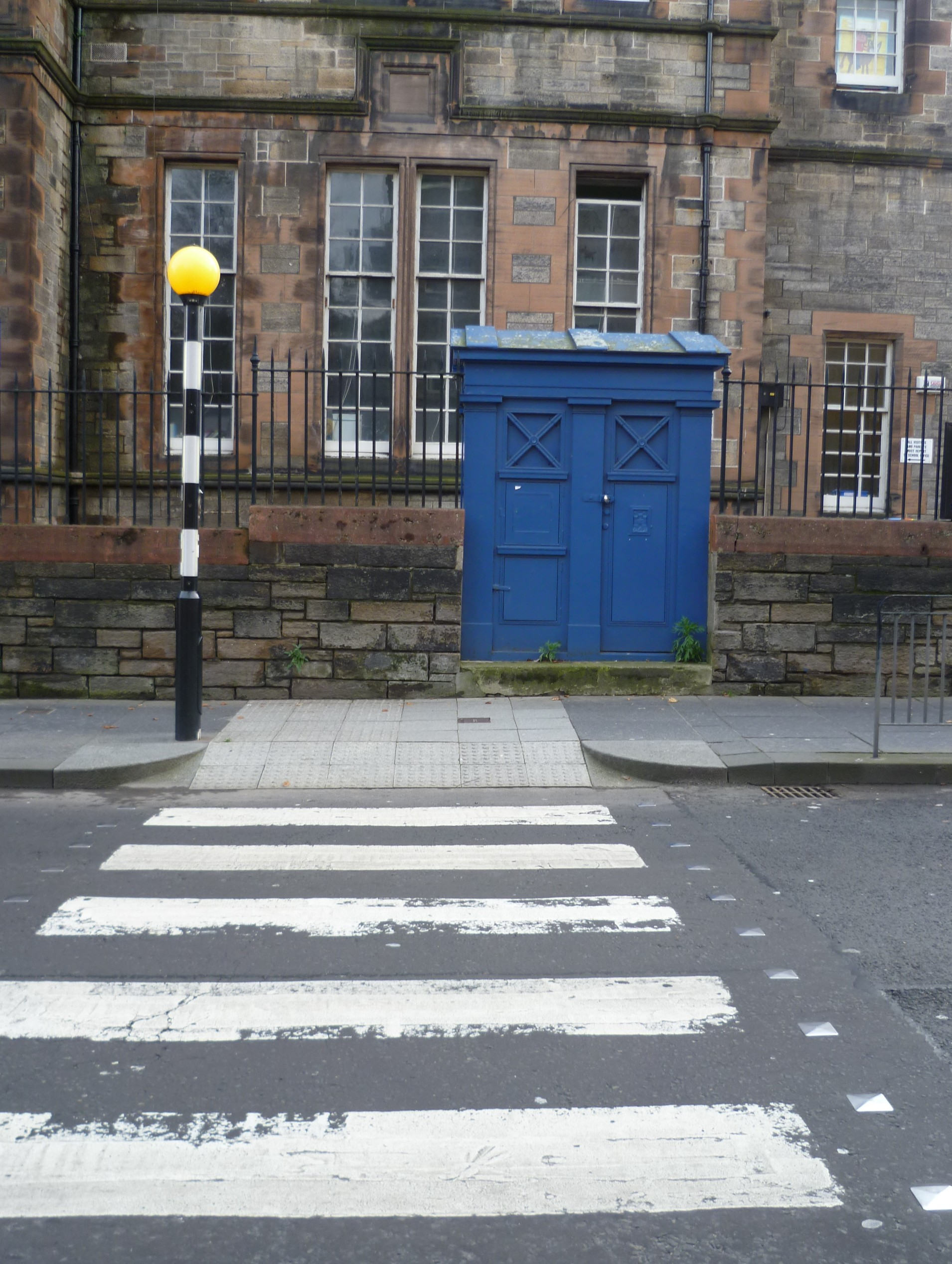 Zebra crossing in the Canongate, Edinburgh